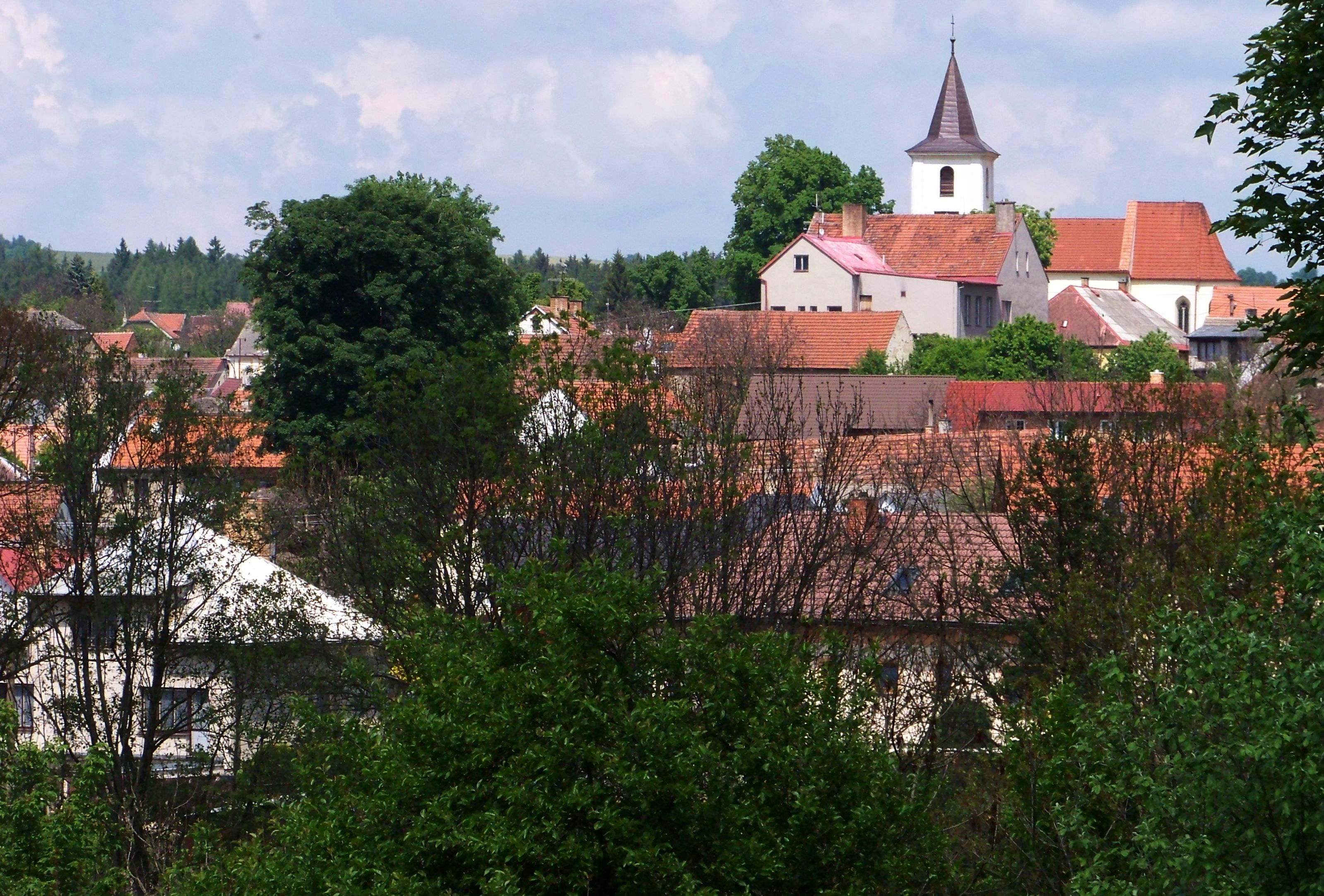 Borotín, Tábor District, South Bohemian Region, the Czech Republic. A view from the south.